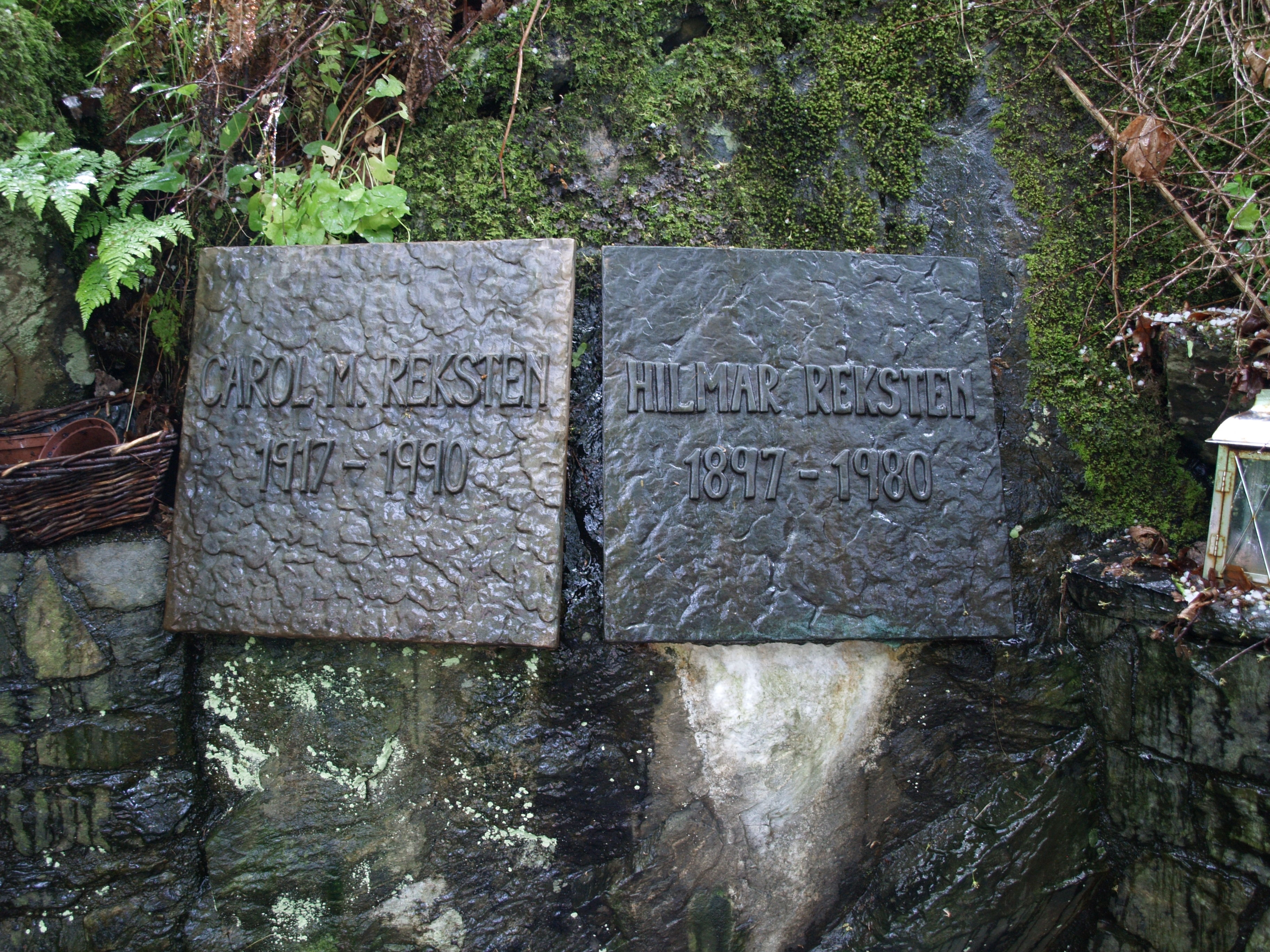 The gravesite of Hilmar Reksten